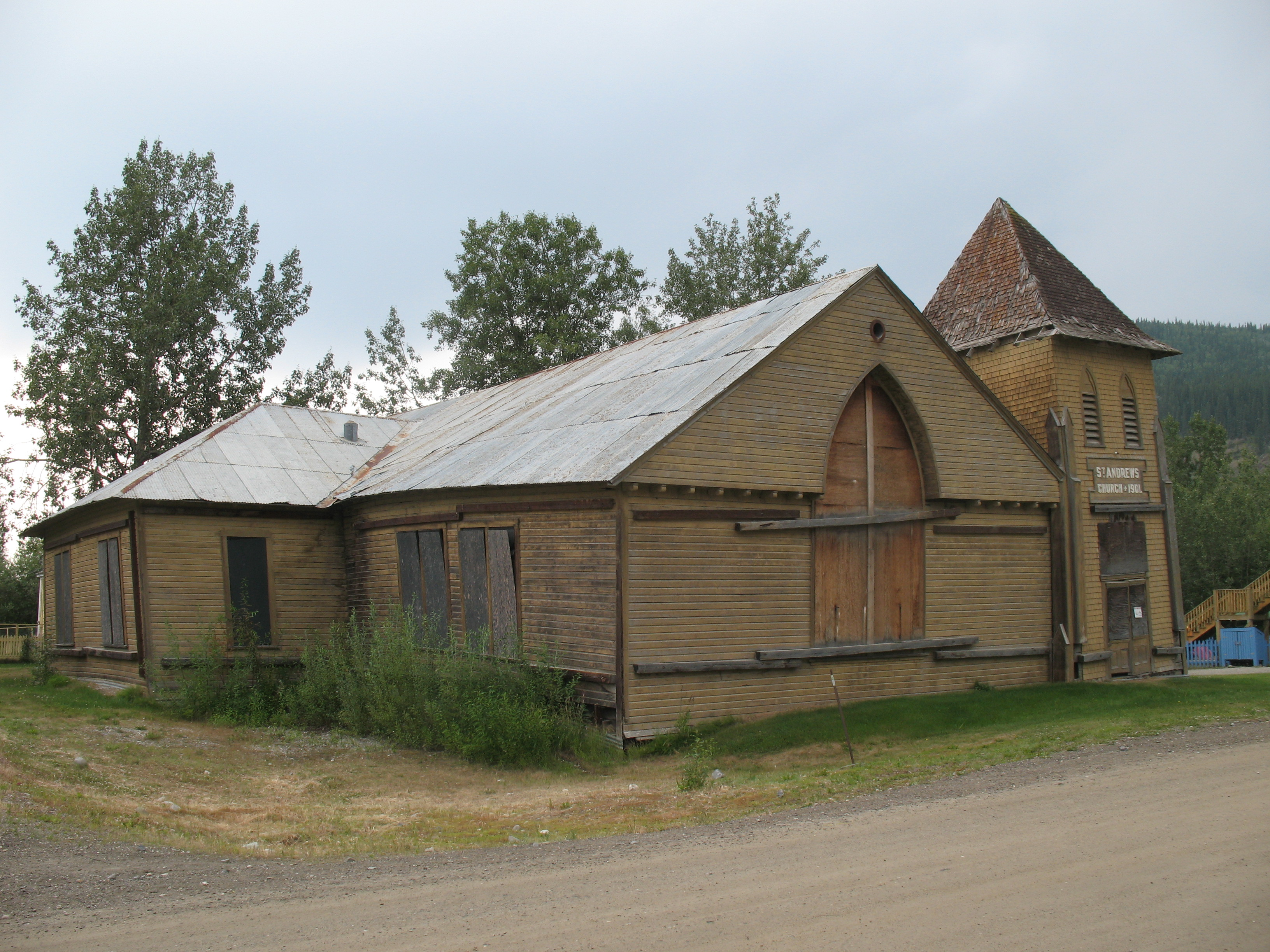 presbyterian church of St Andrews in Dawson, Yukon